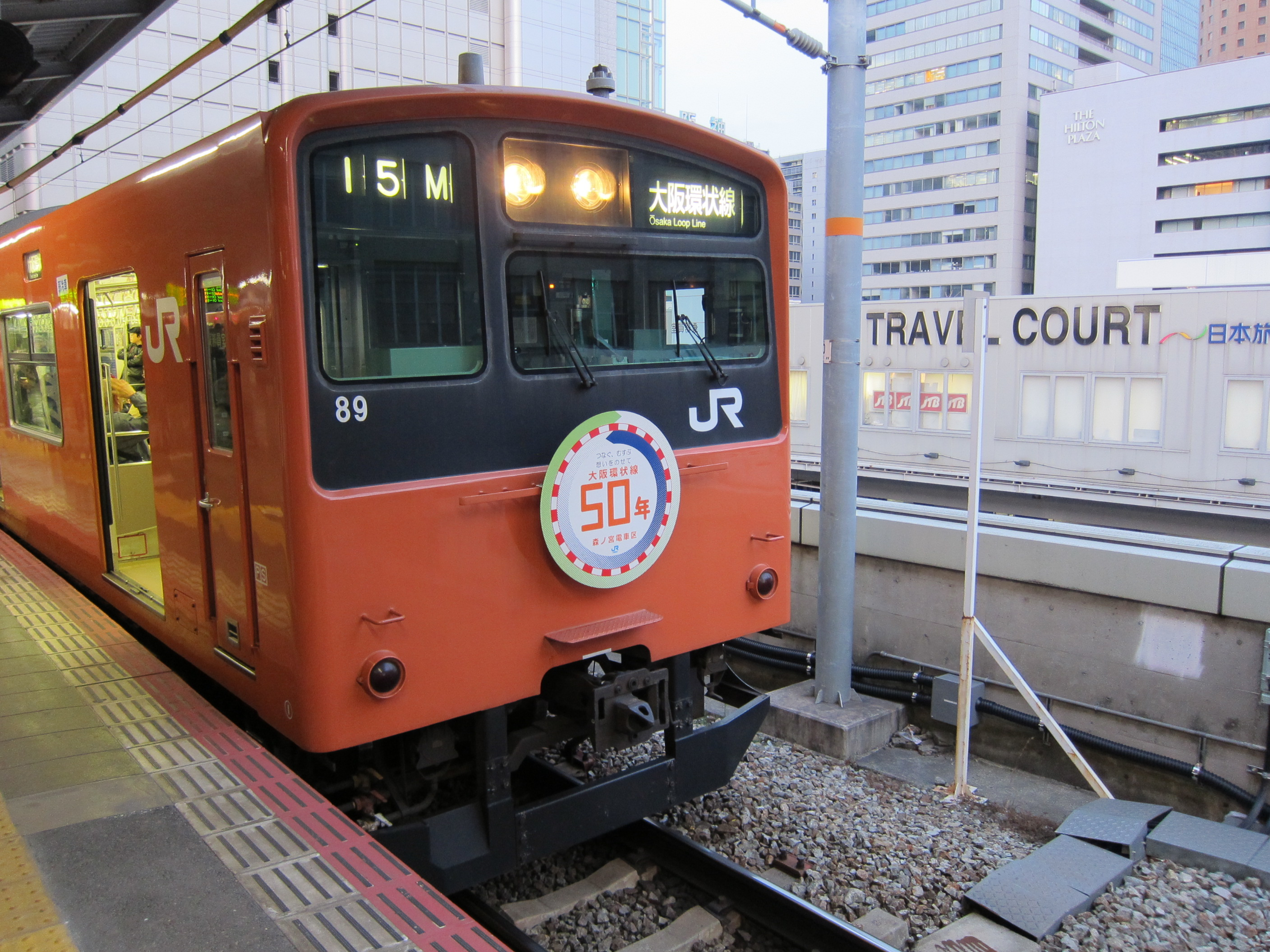 Headmark on the JR 201, Osaka Loop's 50th anniversary celebration. Photo taken in Osaka Station.